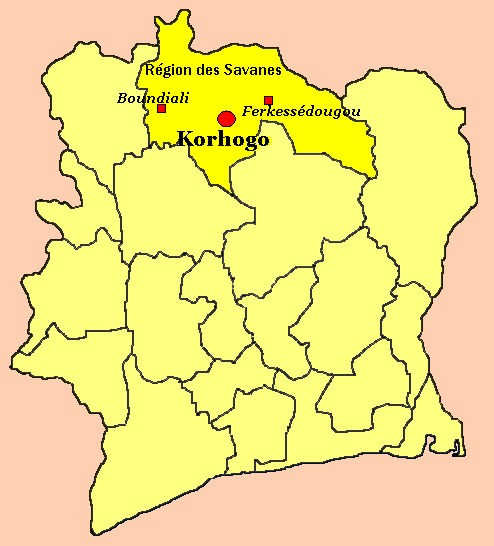 Locator map of Korhogo, in the Sahel sub-Saharan savanna region, Côte d'Ivoire.